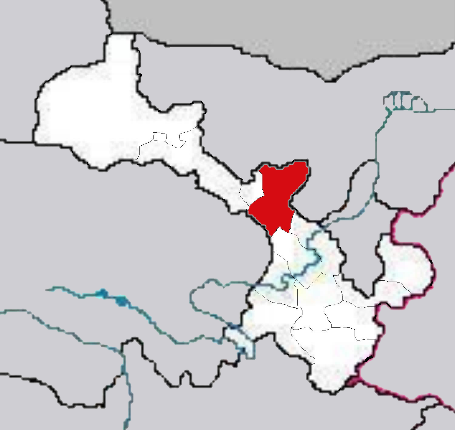 maps of Gansu Province of China